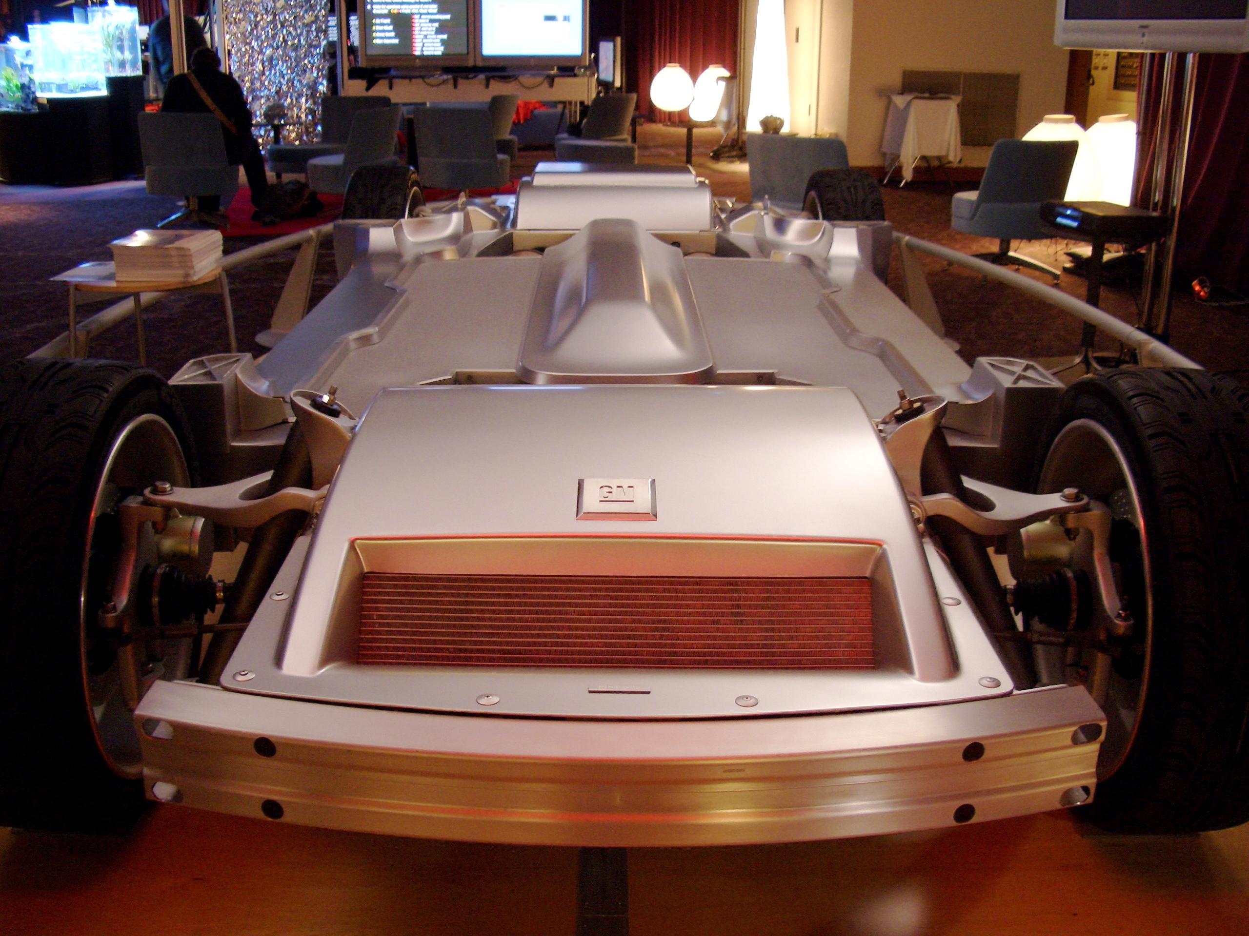 The Autonomy skateboard fuel cell platform (various car bodies could snap on). Low center of gravity, instant torque, 4WD and steering, 1/10 the moving parts of a combustion engine vehicle. Larry Burns, GM's VP of R&D and Planning spoke at TED, and he is quite gung ho. Some quotes: "It's time to change the DNA of the auto industry. We can't grow without hydrogen. The auto industry will be capped by sustainability." "Our cars are idle 90% of the time. They could generate electricity when parked. 4% of U.S. automobiles would be equivalent to the ntire U.S. electric grid." "Serving 70% of the U.S. with 12,000 Hydrogen refueling stations would cost ½ as much as the Alaskan pipeline today."